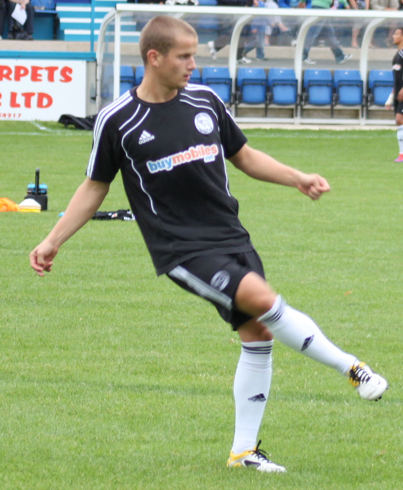 Tomasz Cywka playing for Derby County